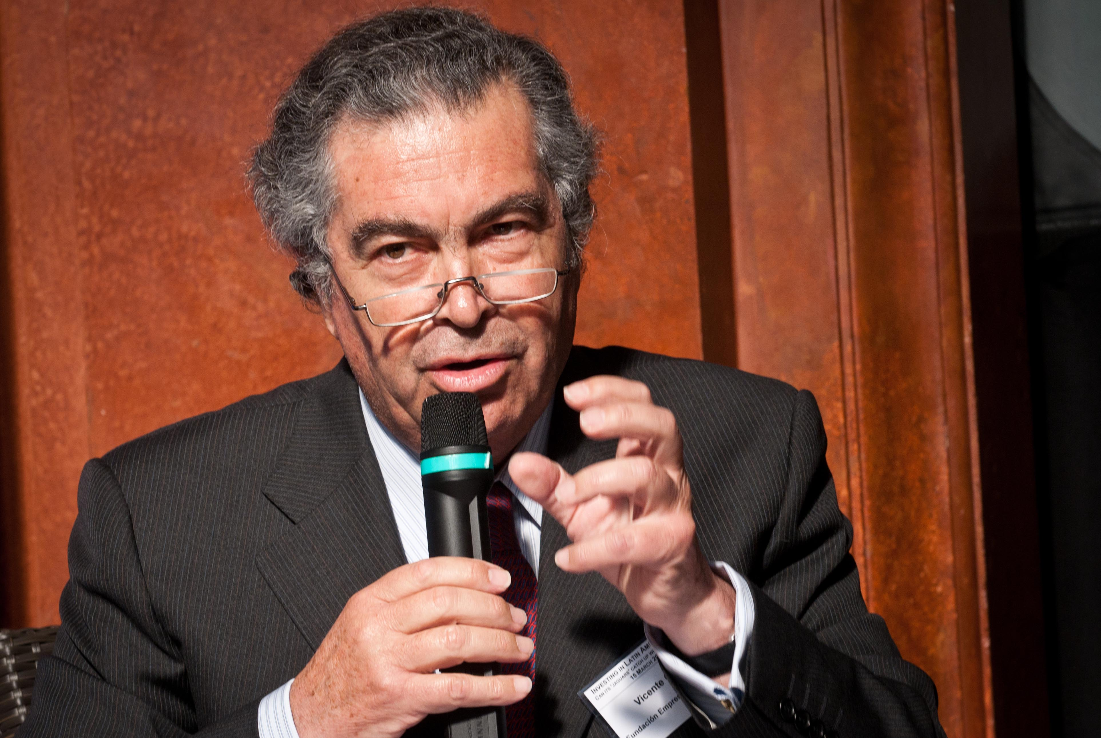 President of the EuroChile Business Foundation